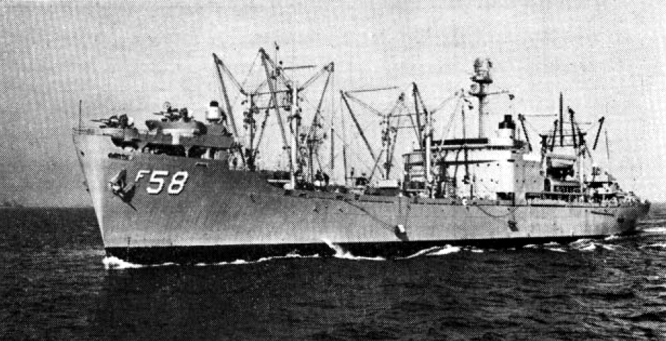 The U.S. Navy stores ship USS Rigel (AF-58) underway.